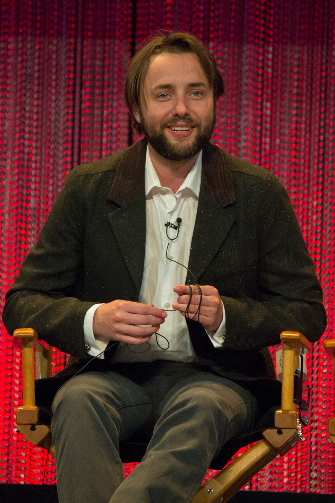 Vincent Kartheiser at The Paley Center For Media's PaleyFest 2014 Honoring "Mad Men"